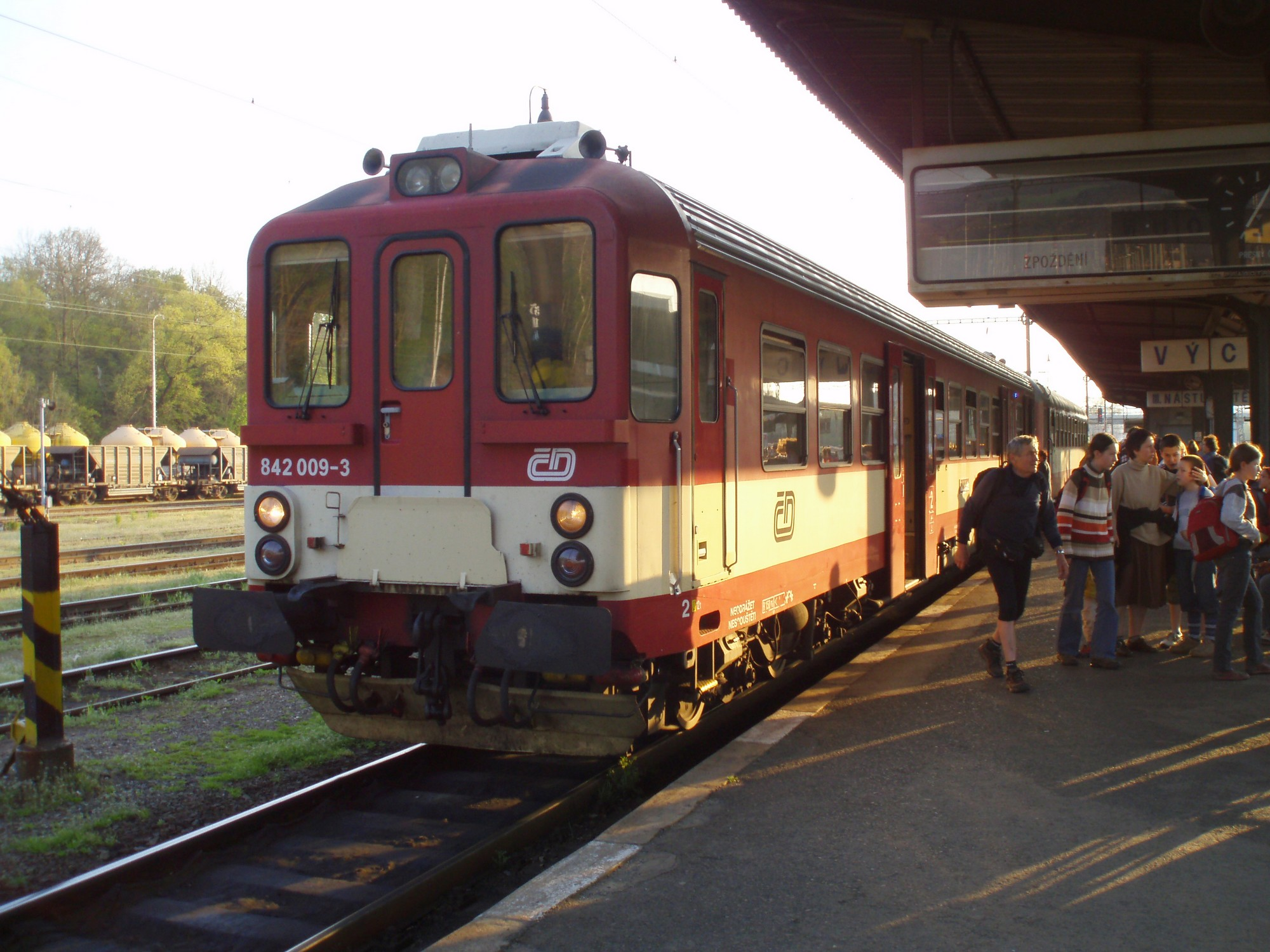 Diesel multiple unit 842 i Beroun station